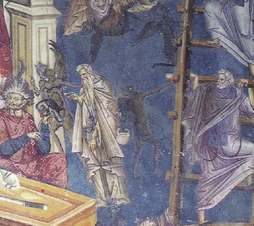 Monk tempted by a devil: detail of wall painting from Exonarthex at Vatopedi